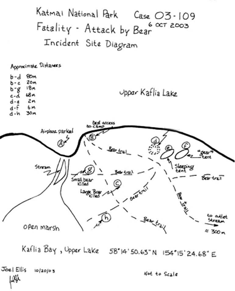 Diagram of Timothy Treadwell attack site.Letters indicate...a - Floatplane mooredb - best access to the campc - place where bear 141 was killedd - Amie's remainse - sleeping tentf - "gear" tentg - place where young bear was killedh - Tim's remainsNote that this rough sketch, made for the Park Service on 2003-10-20, is based on data gained in the evening of 2003-10-06 in quite a hurry, after having briefly observed the scene and killing two bears. Ellis notes "Not to scale" and gives approximate distances in between relevant waypoints.